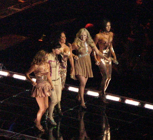 Spice Girls (2007) - The Return of the Spice Girls